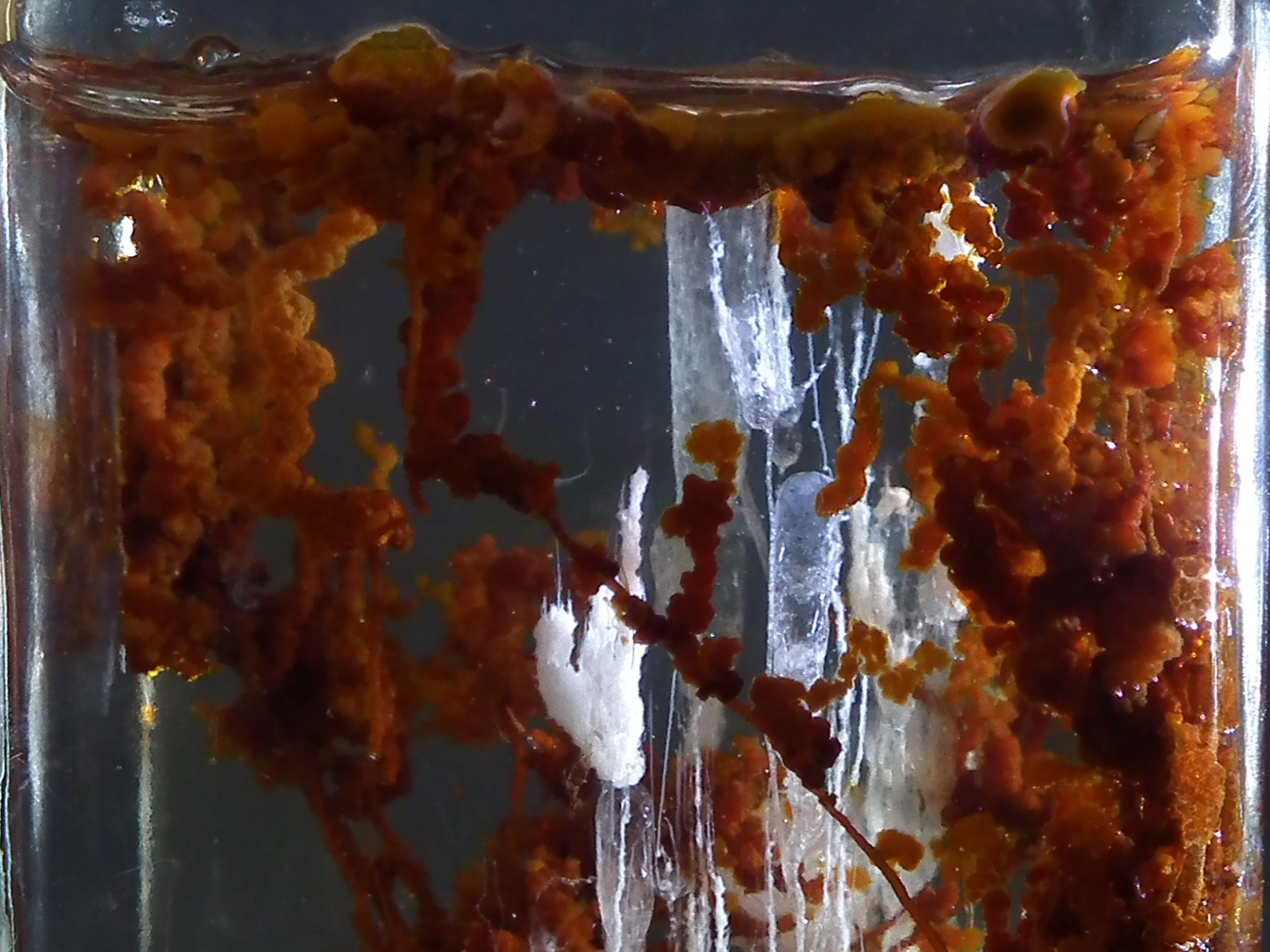 Silicate garden or chemical garden